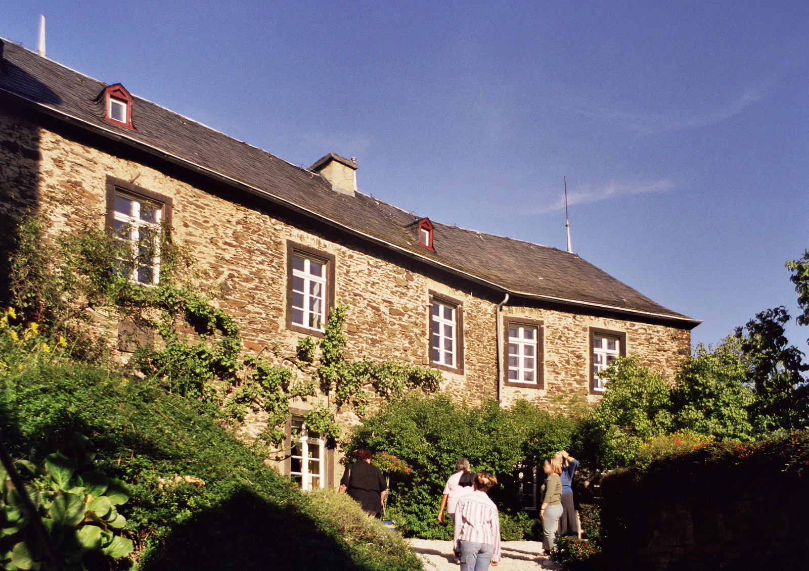 Residential building of Kreuzberg Castle